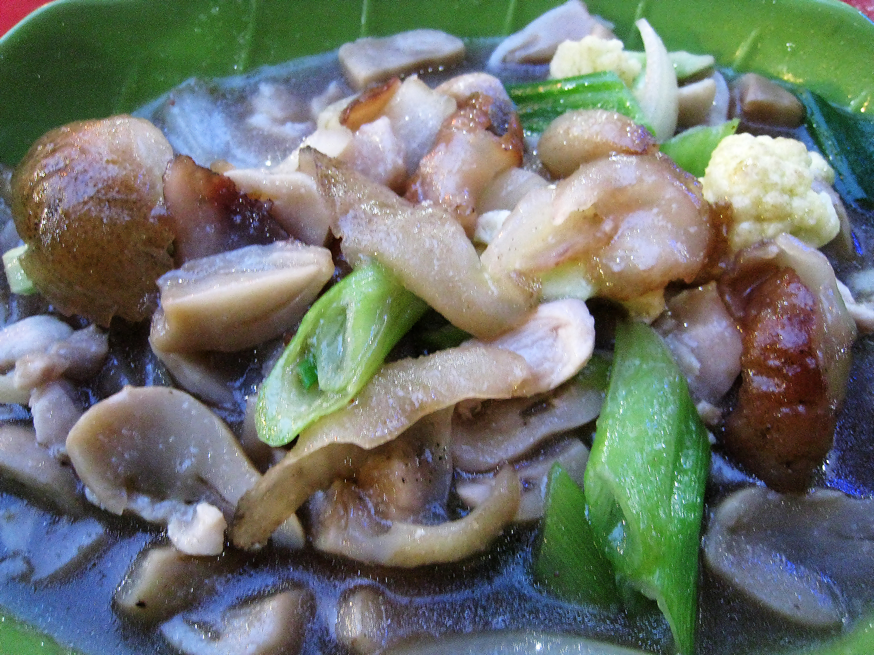 Haisom Cah Jamur or Teripang Cah Jamur, Indonesian Chinese stir fried sea cucumber with mushroom dish. Served in Chinese Indonesian restaurant in Grogol, West Jakarta, Indonesia.